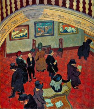 Gauguins and Connoisseurs at the Stafford Gallery, 1911 „In November 1911 the short-lived Stafford Gallery in London held an exhibition of works by Cezanne and Gauguin“ ([1])